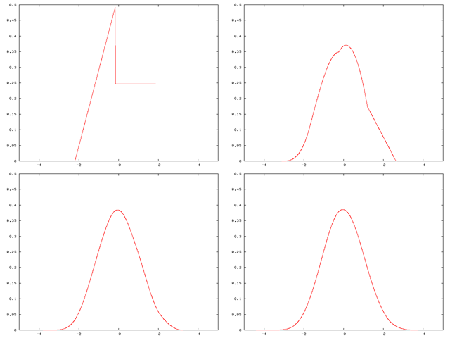 Central limit theorem, composite version